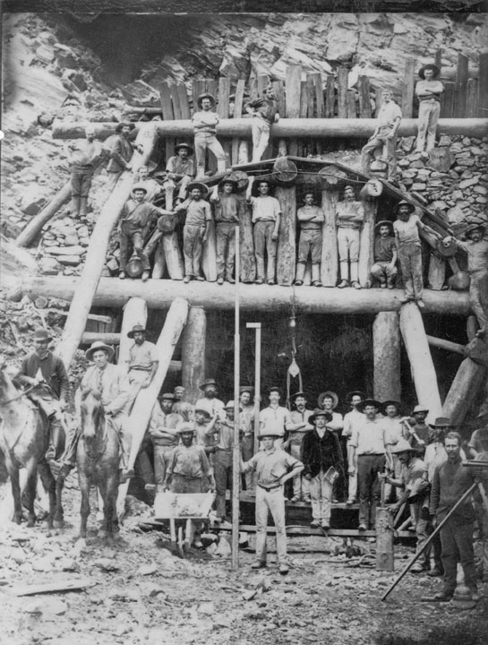 Drilling the longest tunnel, No. 15 during the Cairns to Kuranda railway construction.